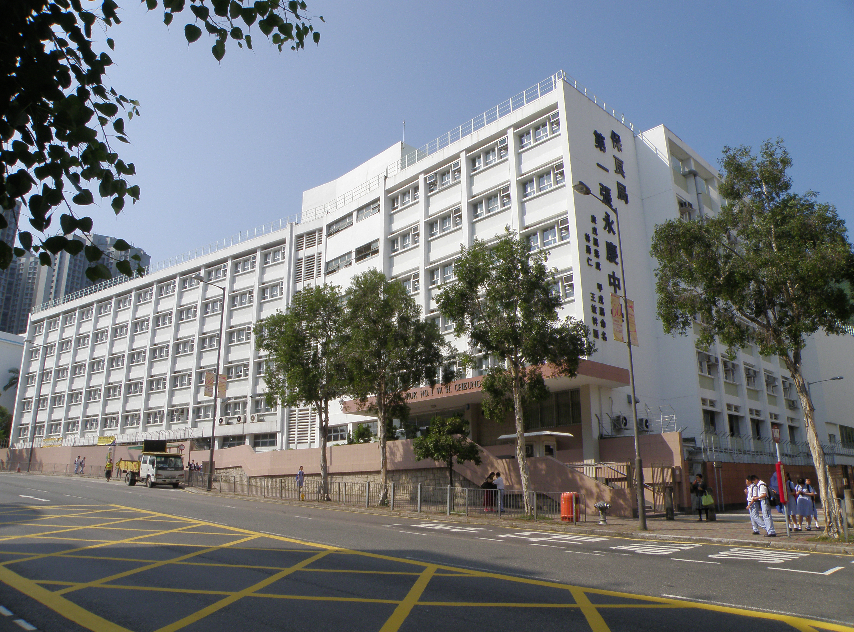 Po Leung Kuk No.1 W.H.Cheung College in Tsz Wan Shan, Hong Kong.